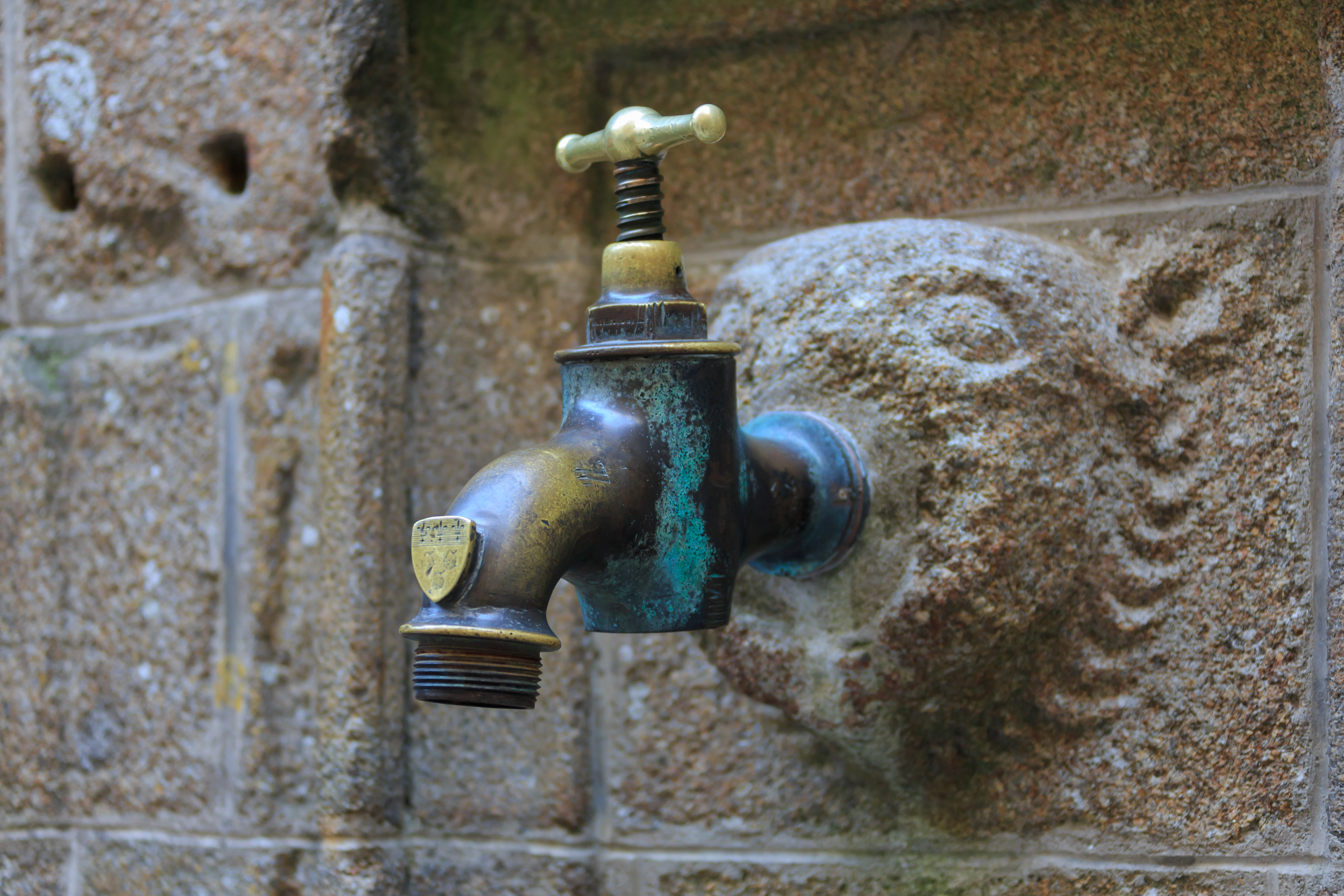 Le Mont-Saint-Michel, France: Water tap with the signs of the Camino de Santiago (represented by three scallops) and the three lillies of the souvereignty of France